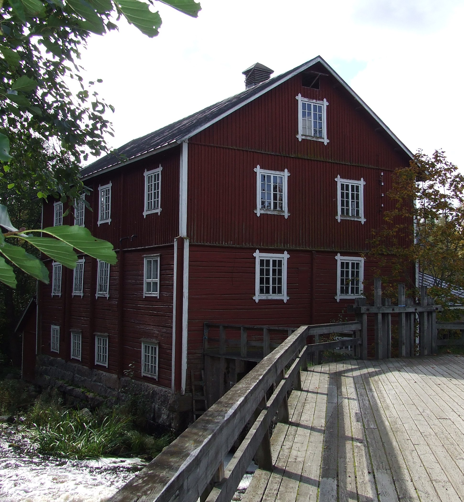 Old watermill in Myllykylä, Hamina, Finland.